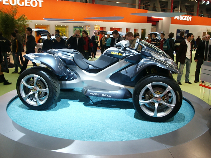 Peugeot Quark at the Amsterdam motor show 2005. Photo taken by me.